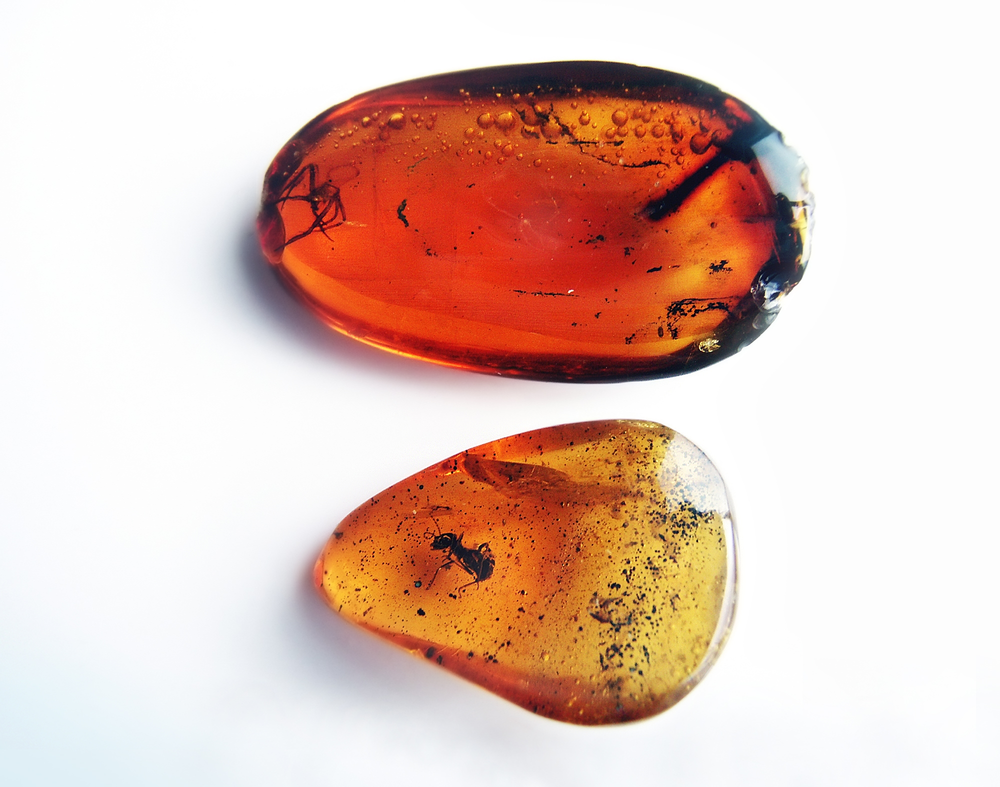 A spider and an ant in amber